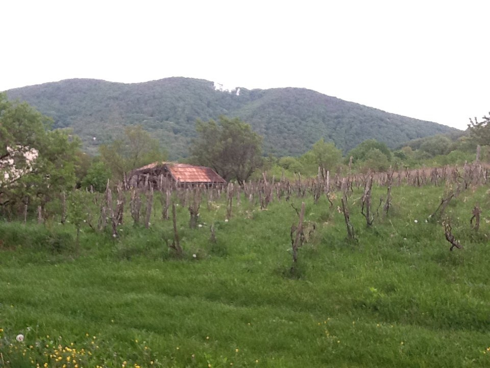 Among Hungarian village Hosszúhetény's winecellars.